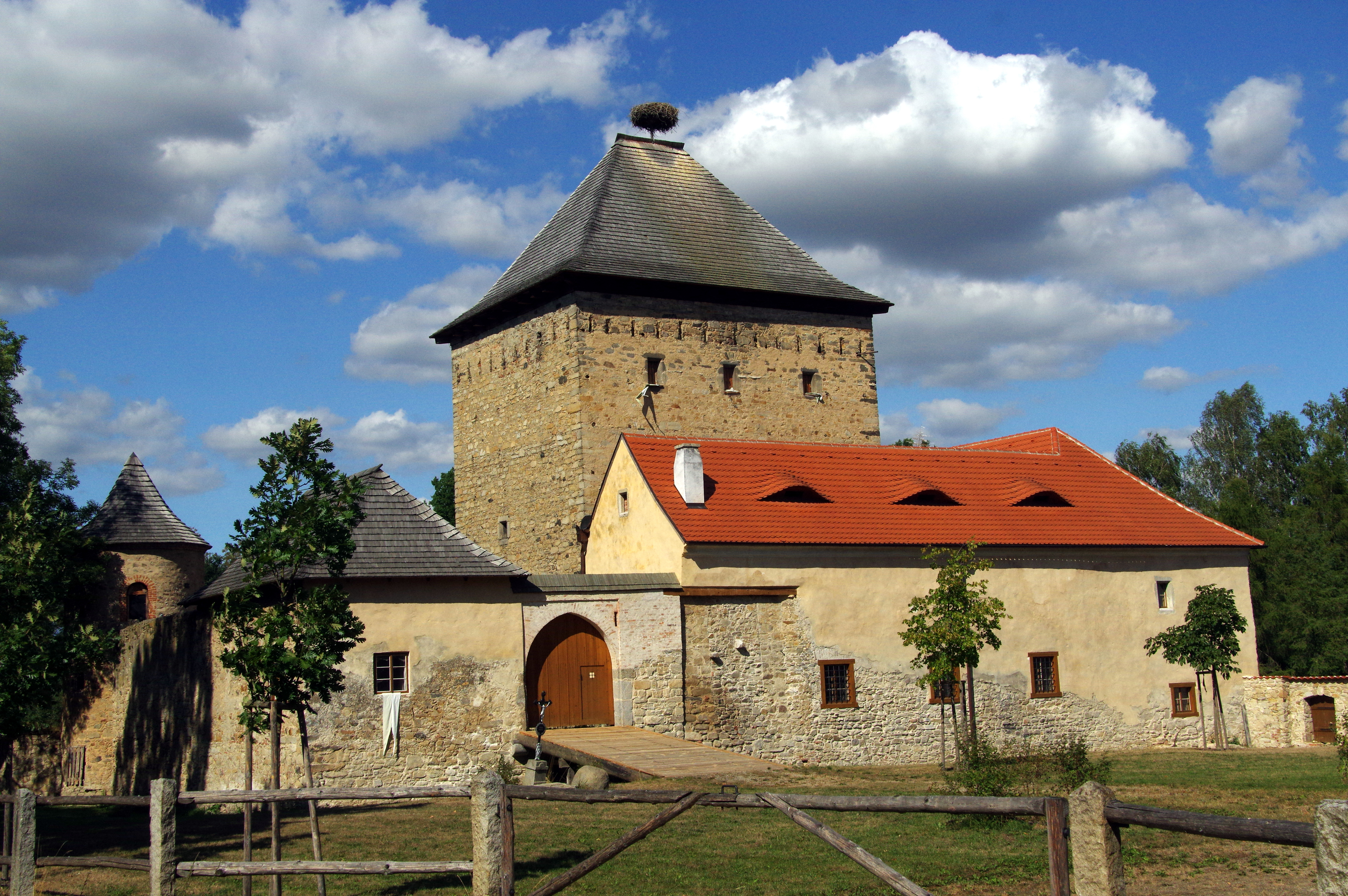 25.8.15 Lomec, Kestrany and Sudomer